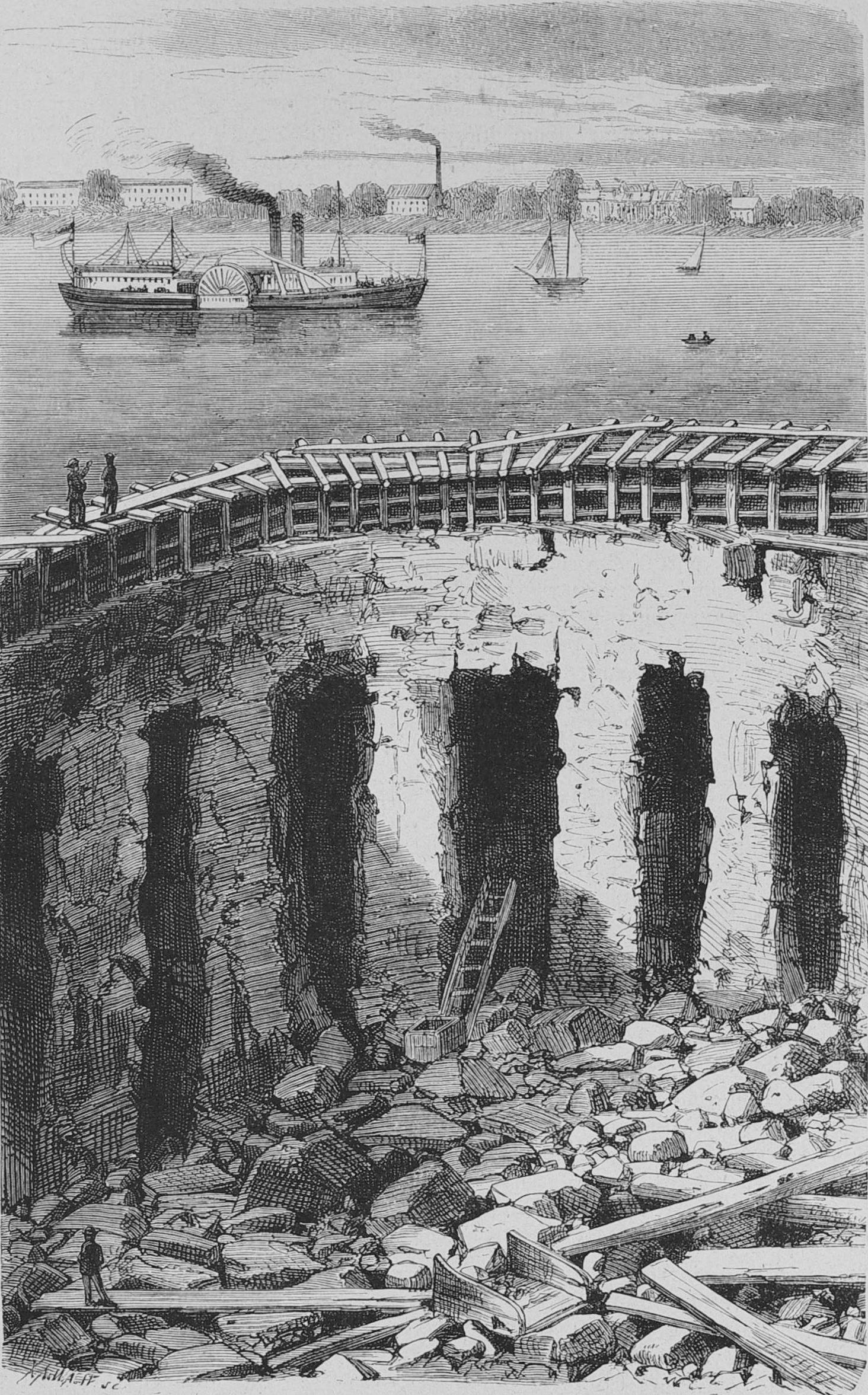 caption: "Blick in den Schacht oder Hof von Hallet’s-Reef. Für die „Gartenlaube“ aufgenommen von Georg Asmus in New-York."